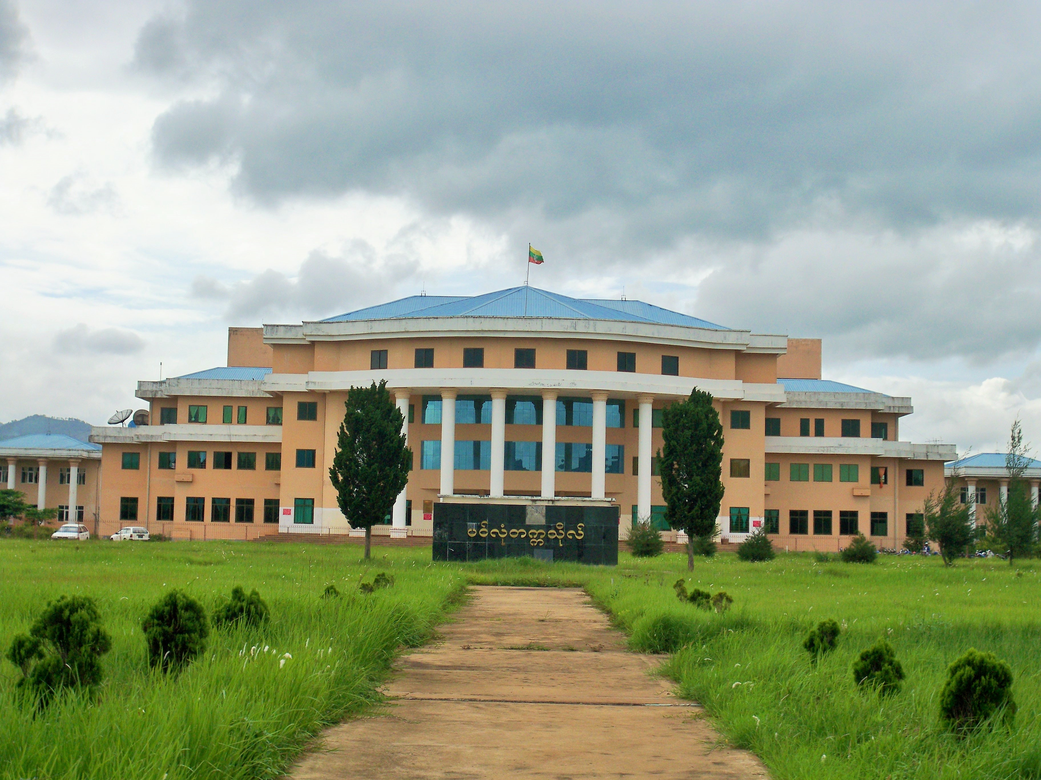 This is Panglong University which open in Southern Shan State.